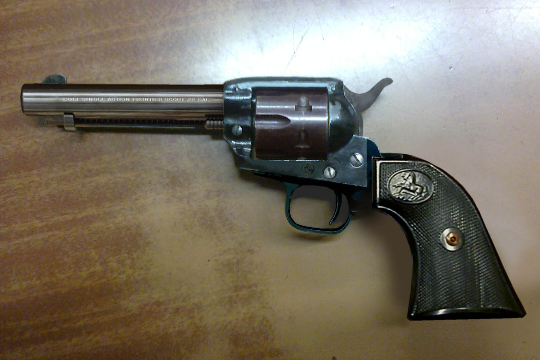 Colt frontier scout model .22 cal. Thanks to the armory Vincenzo Bonelli in Florence. Grazie alla cortesia dell'armeria di Vincenzo Bonelli in Firenze.